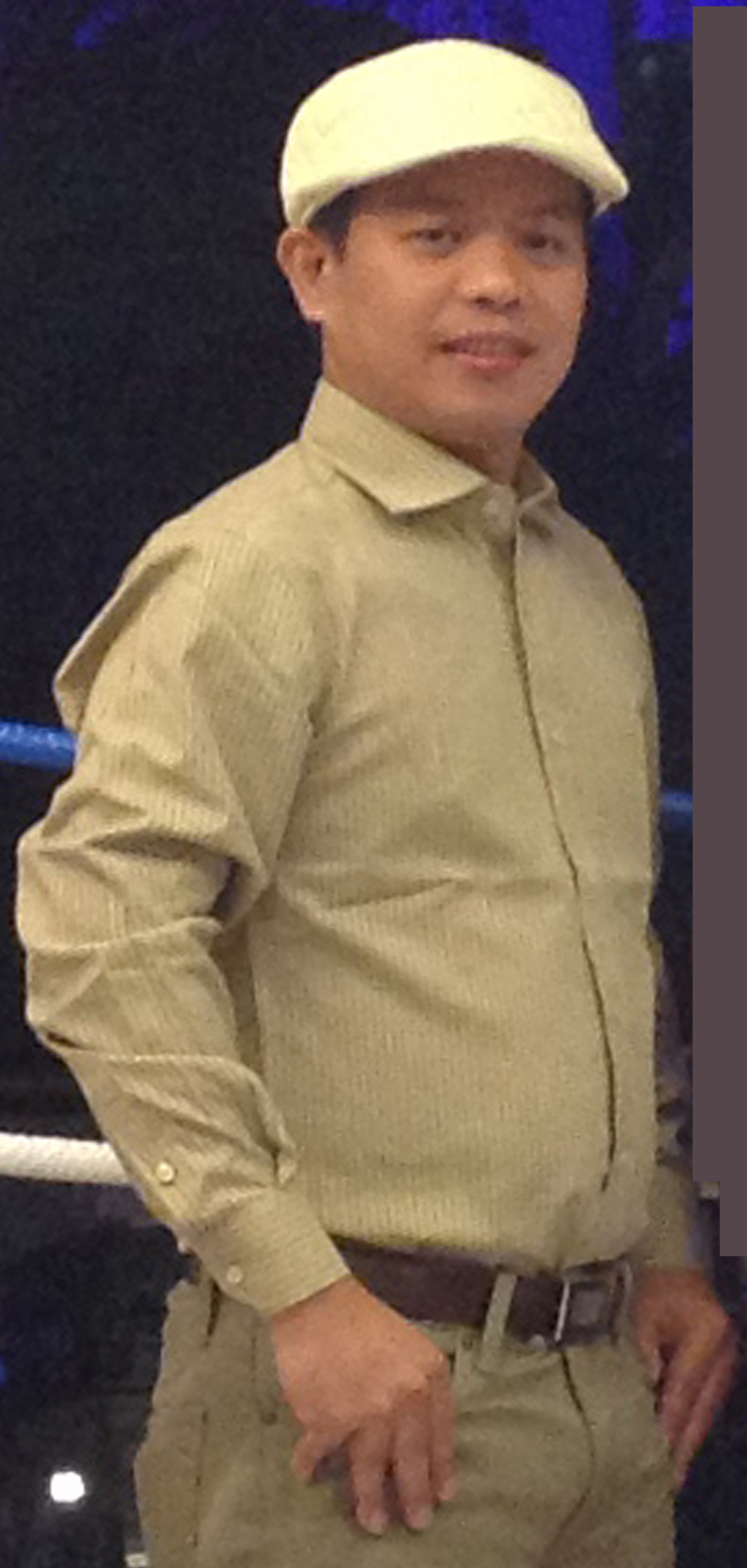 Taken in Cancun, Mexico in December 2012 during the WBC's 50th Annual Convention